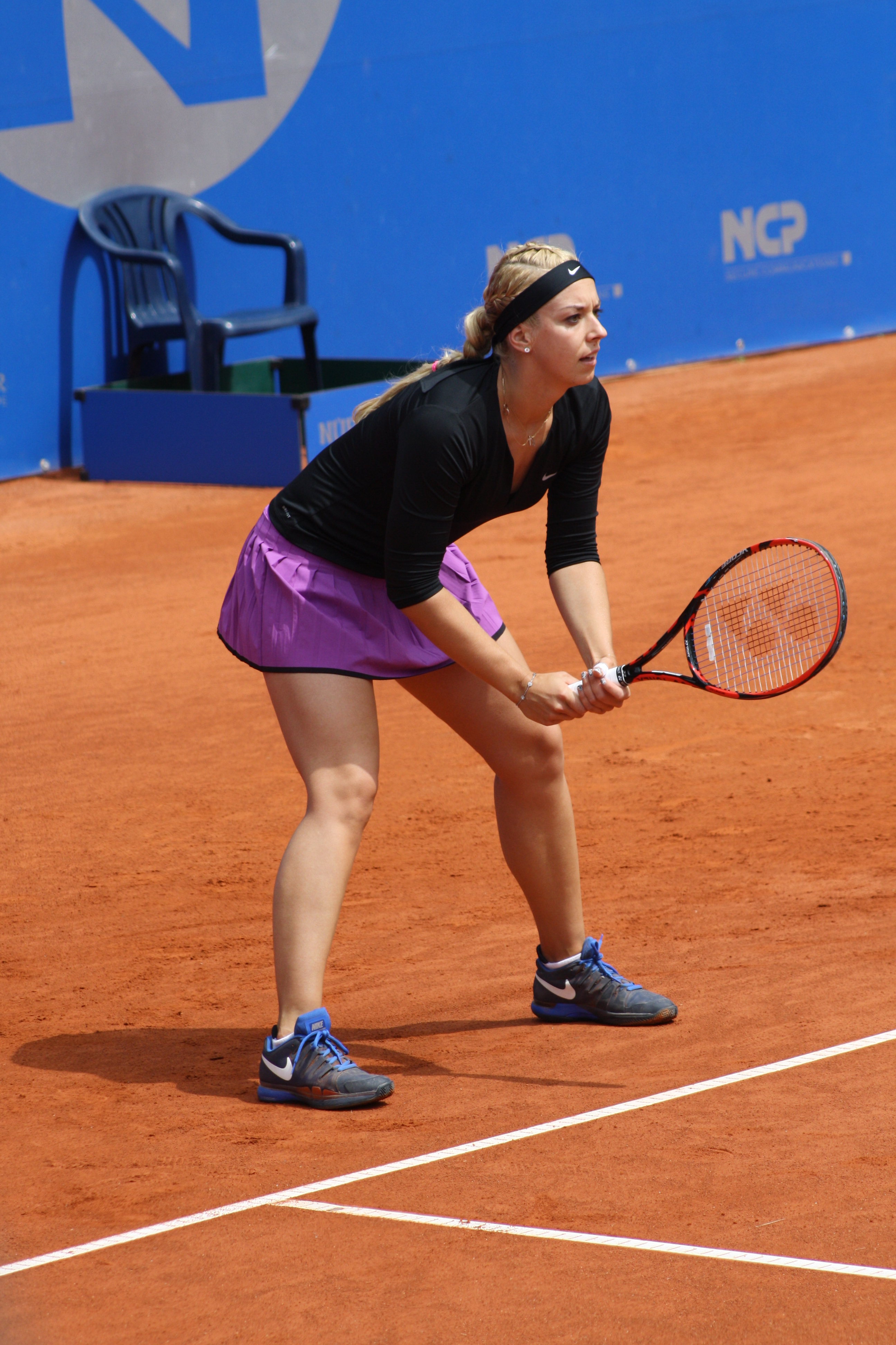 Sabine Lisicki, May 2015